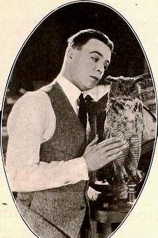 Still (cropped for publication) from the American comedy film The Jailbird (1920) with Douglas MacLean, on page 4820 of the June 12, 1920 Motion Picture News.